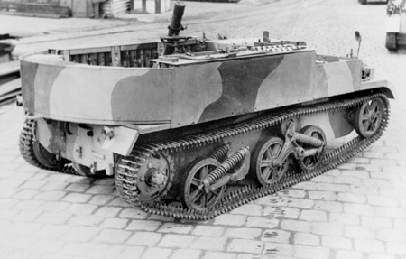 AWM photo caption: CARRIER 3 MORTAR (AUST). NOTE THE 3 COLOUR CAMOUFLAGE.